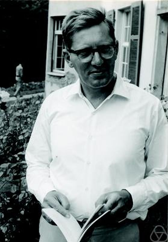 Nicolaas Govert de Bruijn, 1960s in Oberwolfach